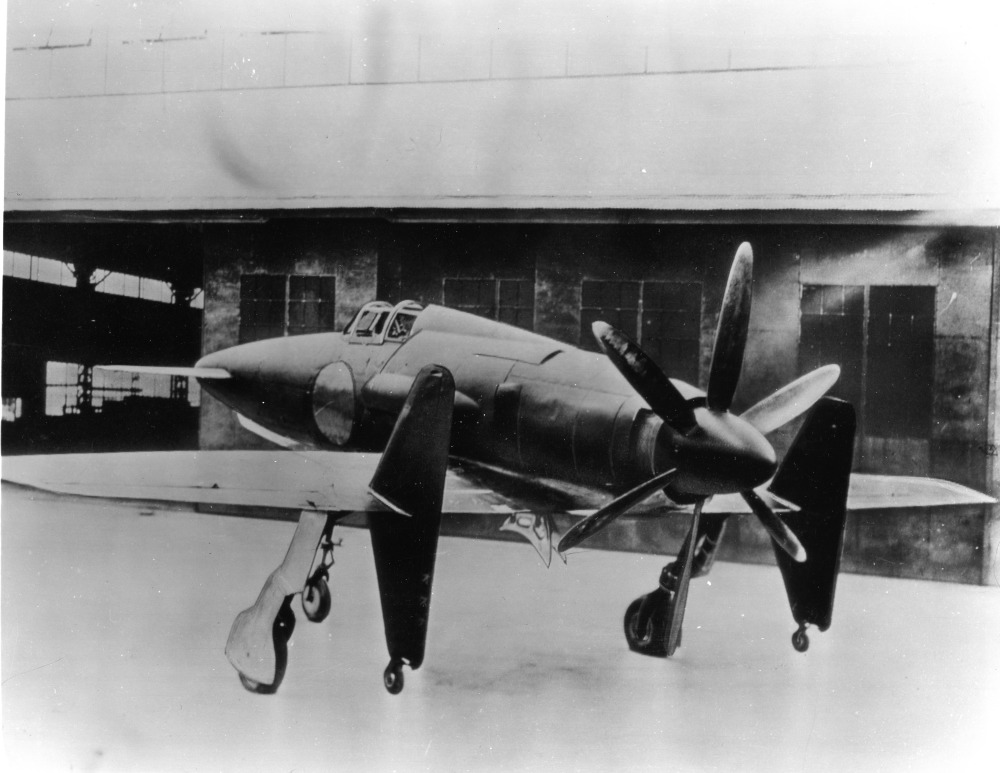 Kyūshū J7W1 Shinden Magnificent Lightning